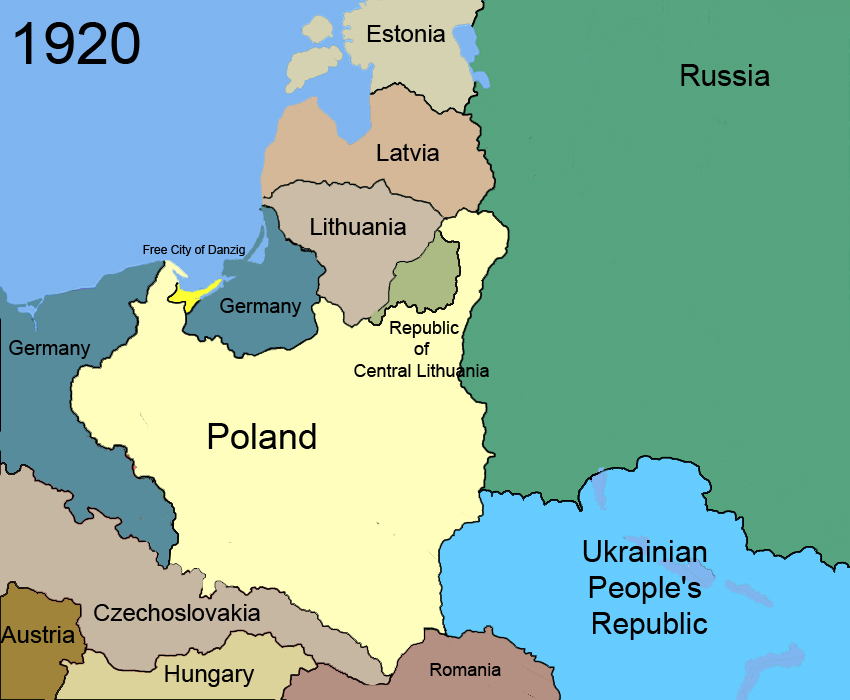 Poland 1920